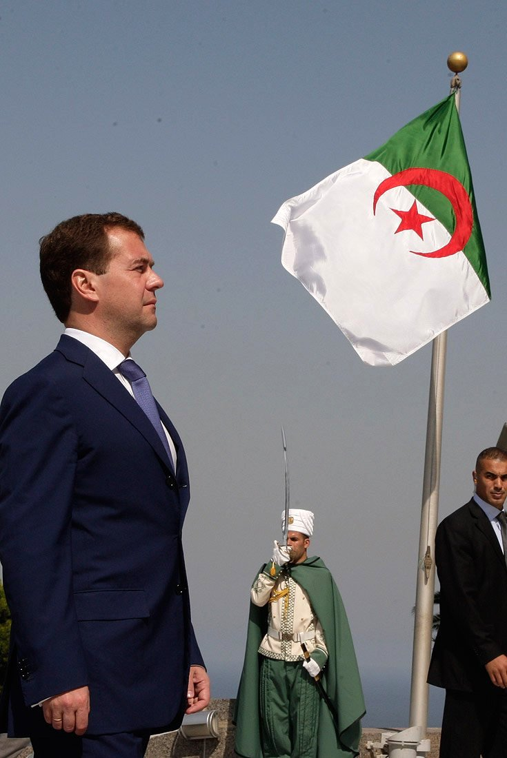 Official welcome ceremony.